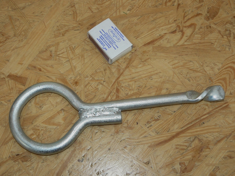 Rappeling "ring"